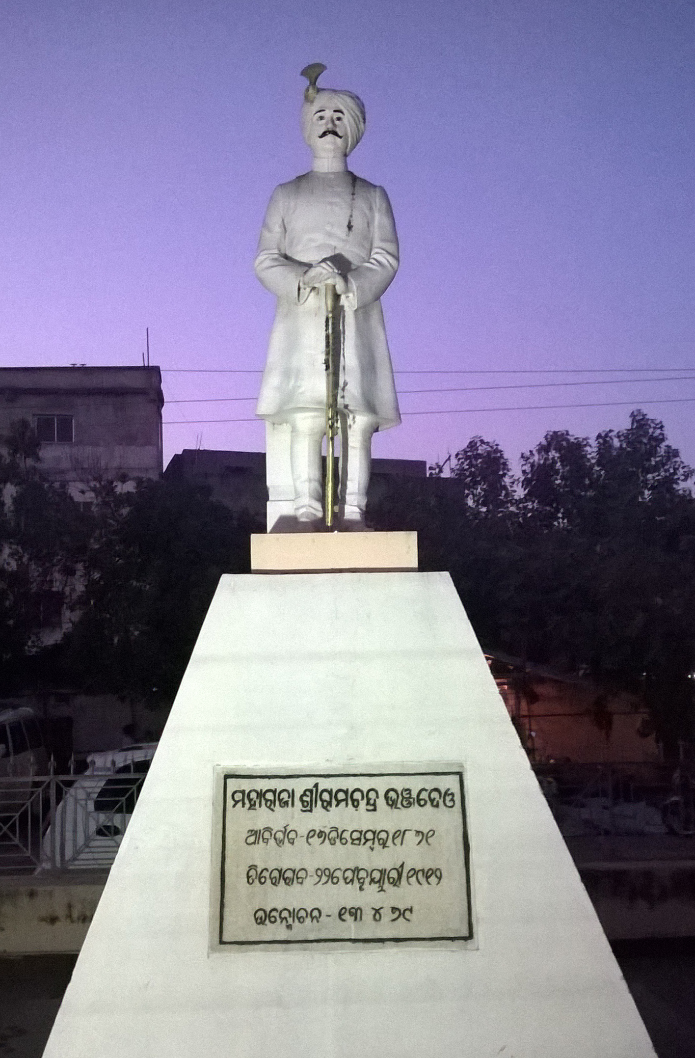 Statue of Sriram Chandra Bhanj Deo, ruler of Mayurbhanj State (b. 1871 - d. 1912)ଓଡ଼ିଆ: ଶ୍ରୀରାମ ଚନ୍ଦ୍ର ଭଞ୍ଜଦେଓ ଓଡିଶାର ବିଖ୍ୟାତ ରାଜା